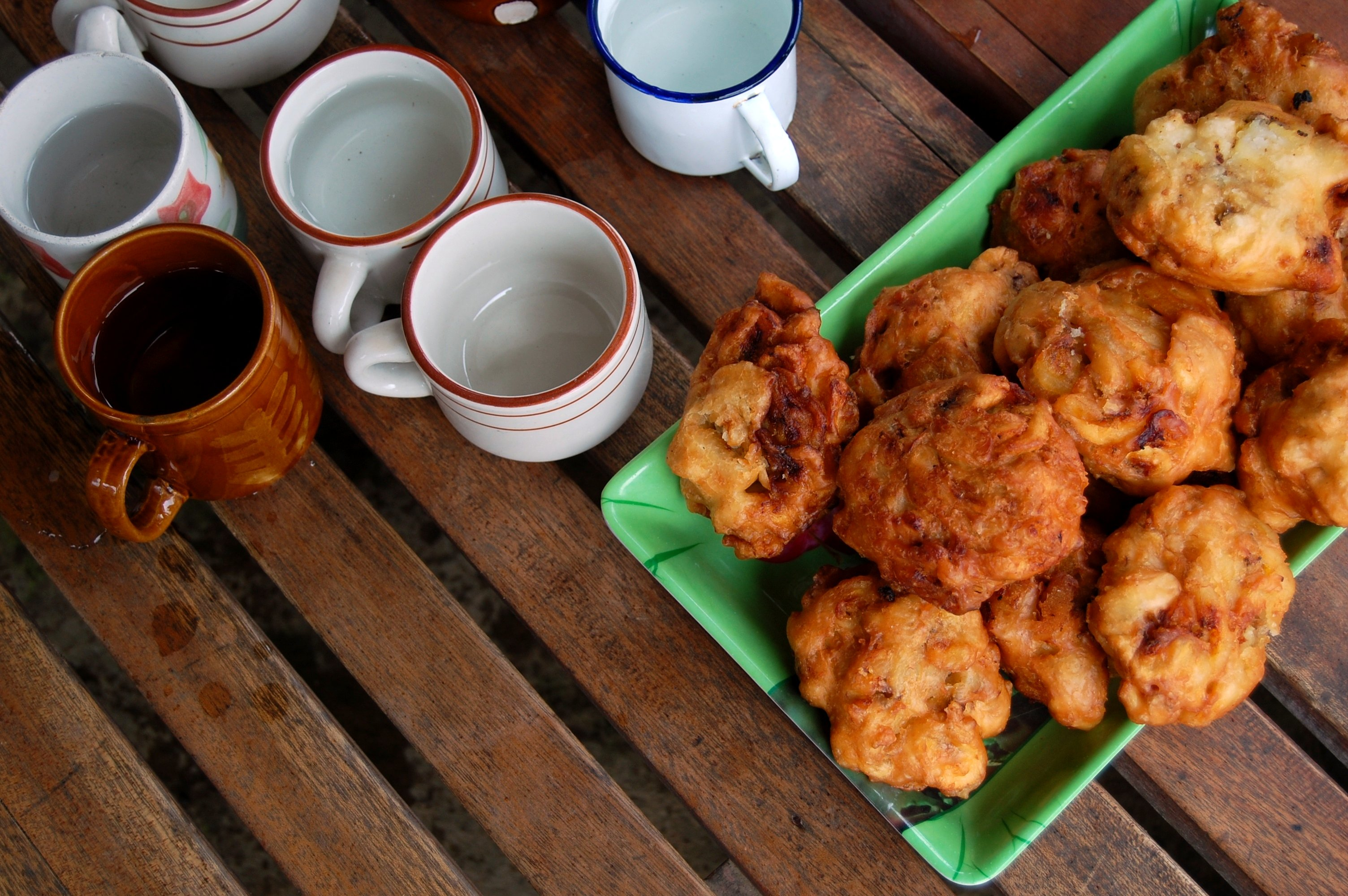 This quintessential Filipino snack is made of babana slices dipped in batter then fried. Goes well with freshly brewed upland coffee. Nikon D40 (GLMI-PRRM-Japanese Embassy Project Turn-over, November 2009)